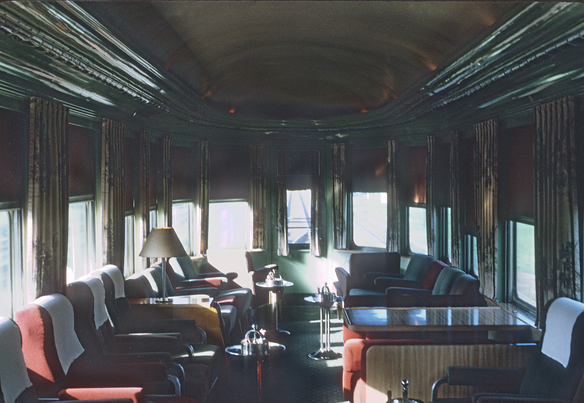 Roger Puta was on the northbound Illinois Central Panama Limited one morning in May 1964 in the southern suburbs of Chicago. I've found four slides and present them in the order he took them. Observation Car either Gulfport or Memphis.